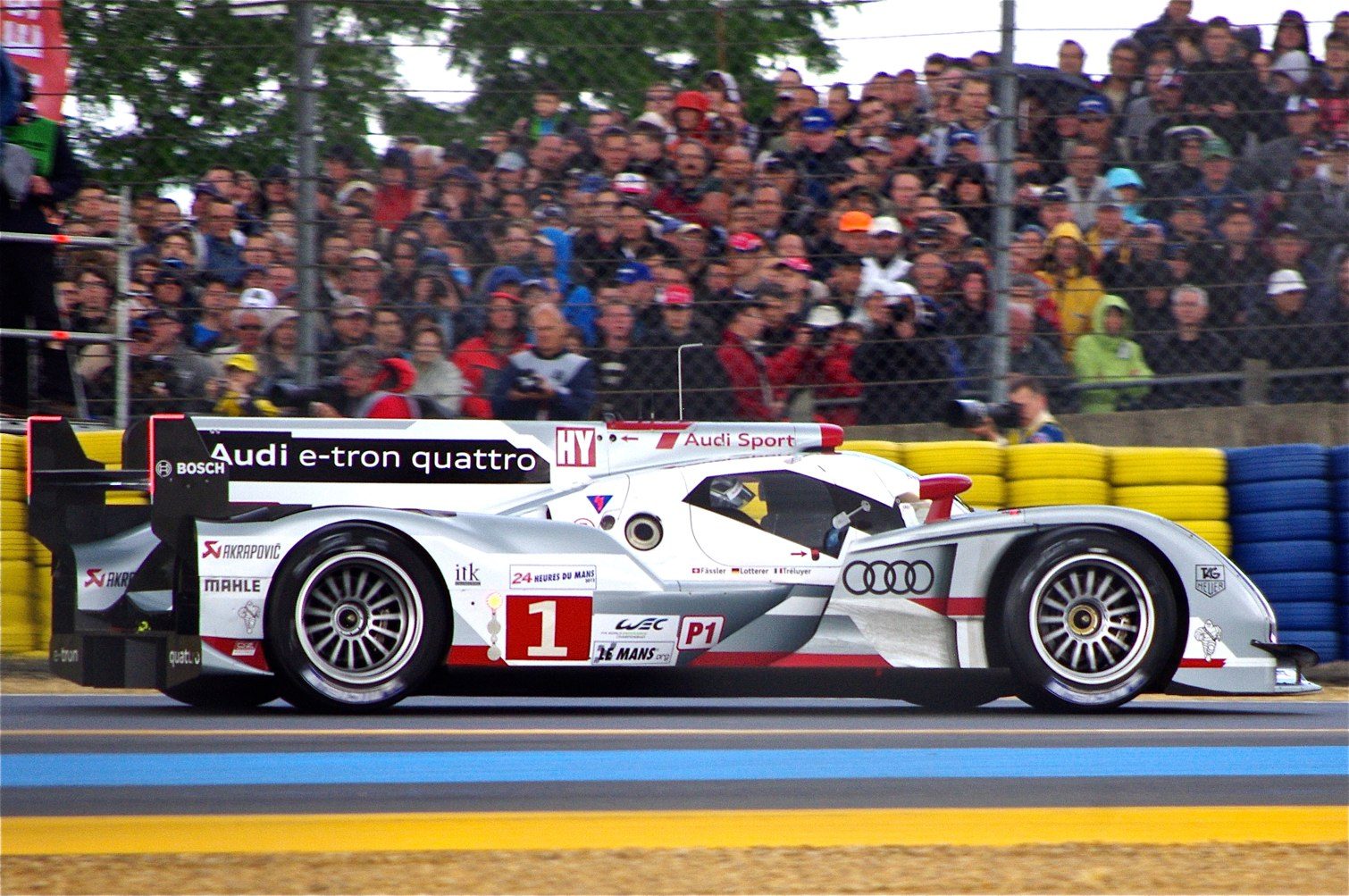 Audi R18 e-tron quattro 2012, Winner of the Le Mans 24 Hours, 2012